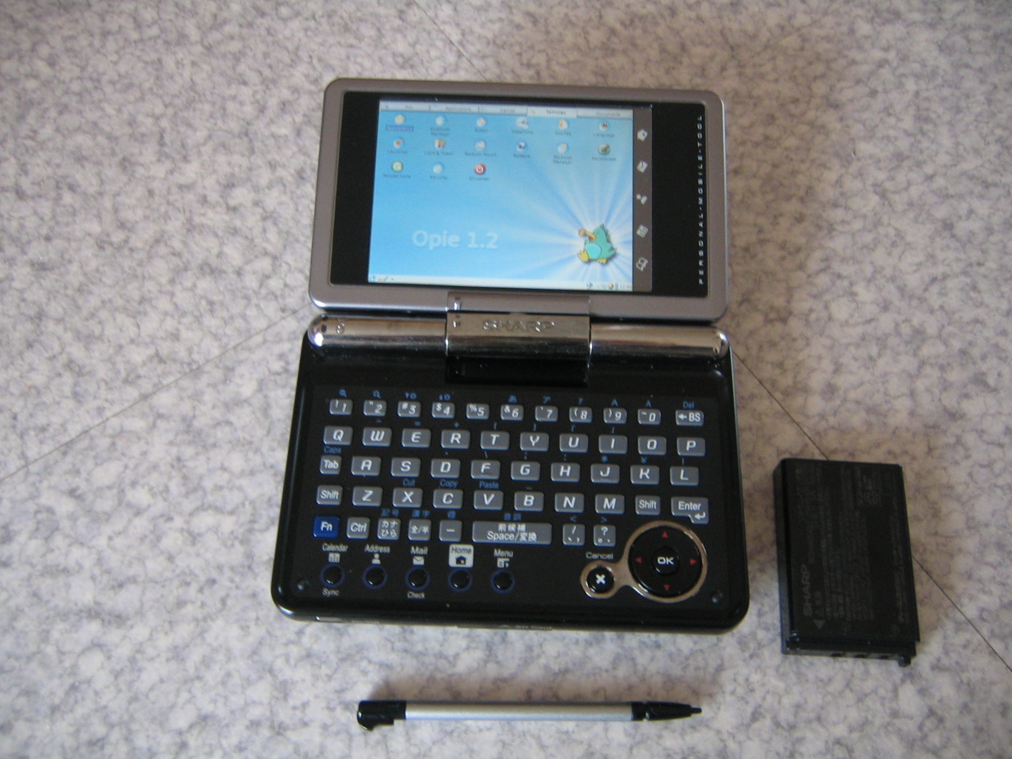 Zaurus SL-C3100 running OpenZaurus with Opie 1.2 We can also see the stylus and the battery.